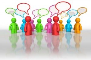 mudrost gomile